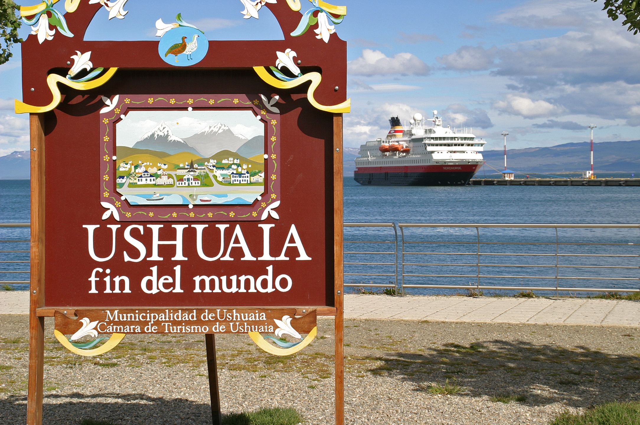 Ushuaia: The Argentine city of about 65,000 inhabitants is located on the Great Fire Island (Isla Grande de Tierra del Fuego) and is considered to be the southernmost city in the world.